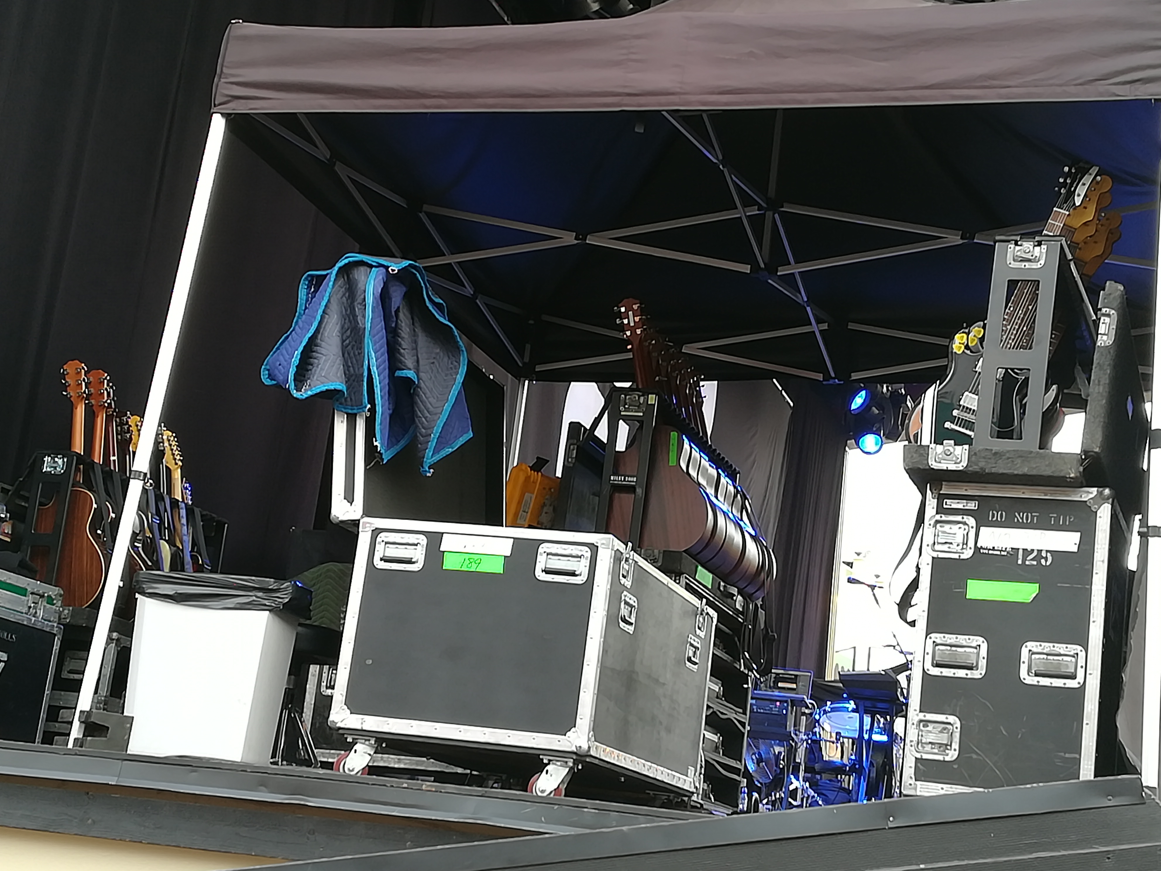 Guitars used by John Rzeznik during Goo Goo Dolls performance at Gröna Lund on 8th of August, 2018